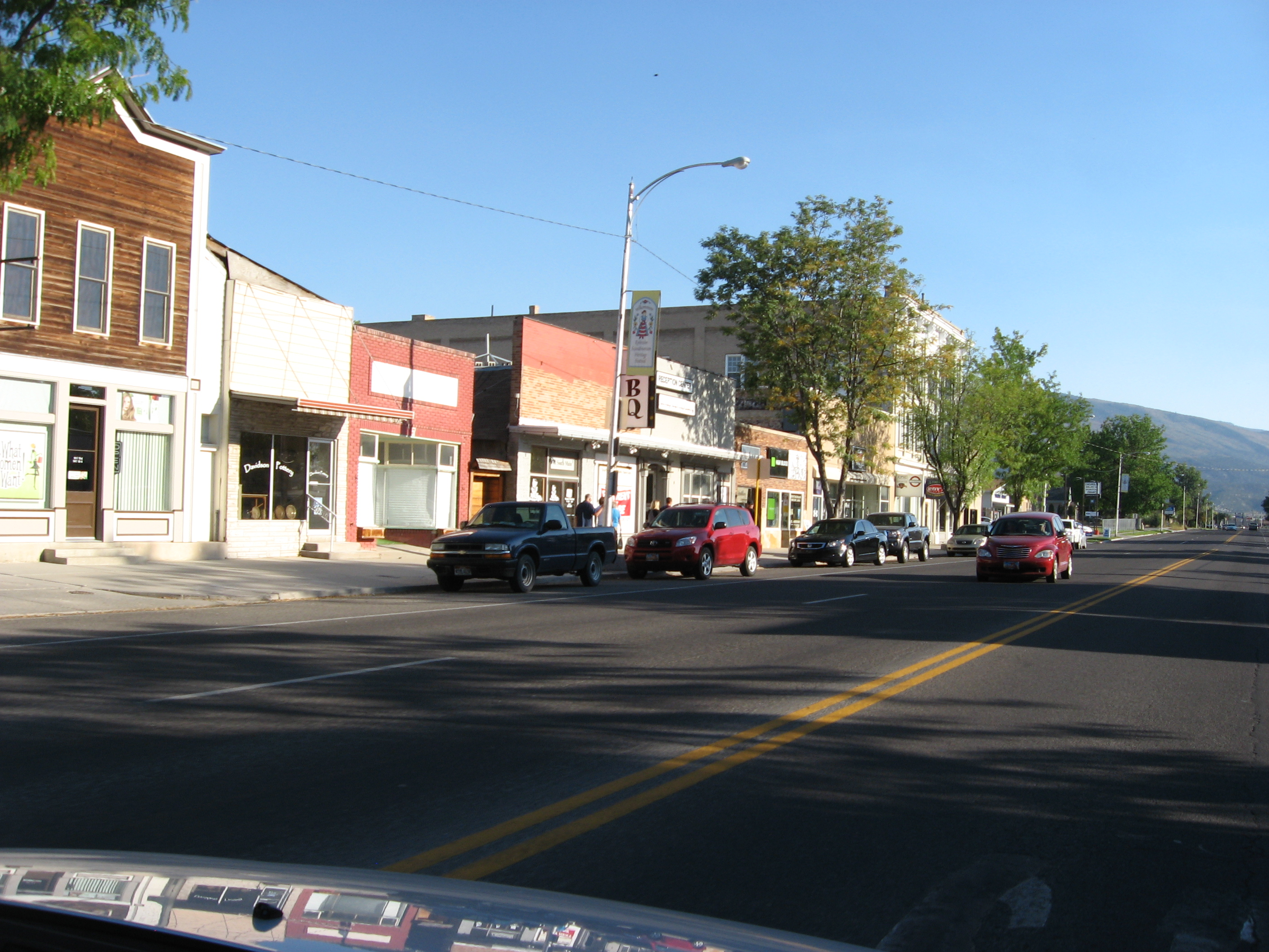 Downtown Ephraim Utah